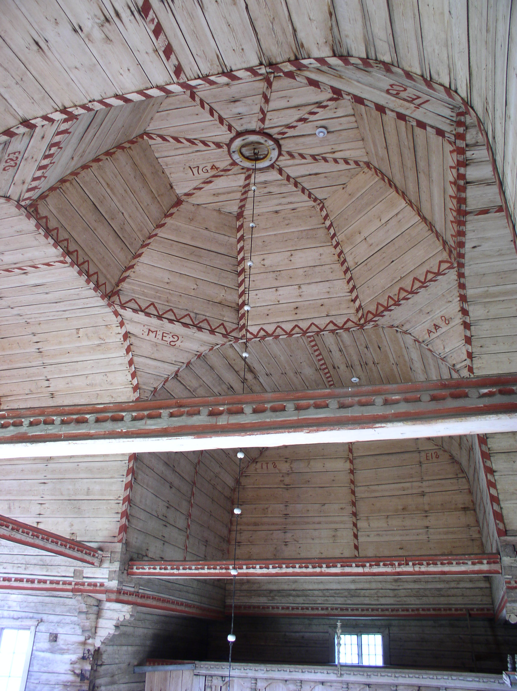 Petäjävesi Old Church, Finland, interior, ceiling, dome, UNESCO World heritage